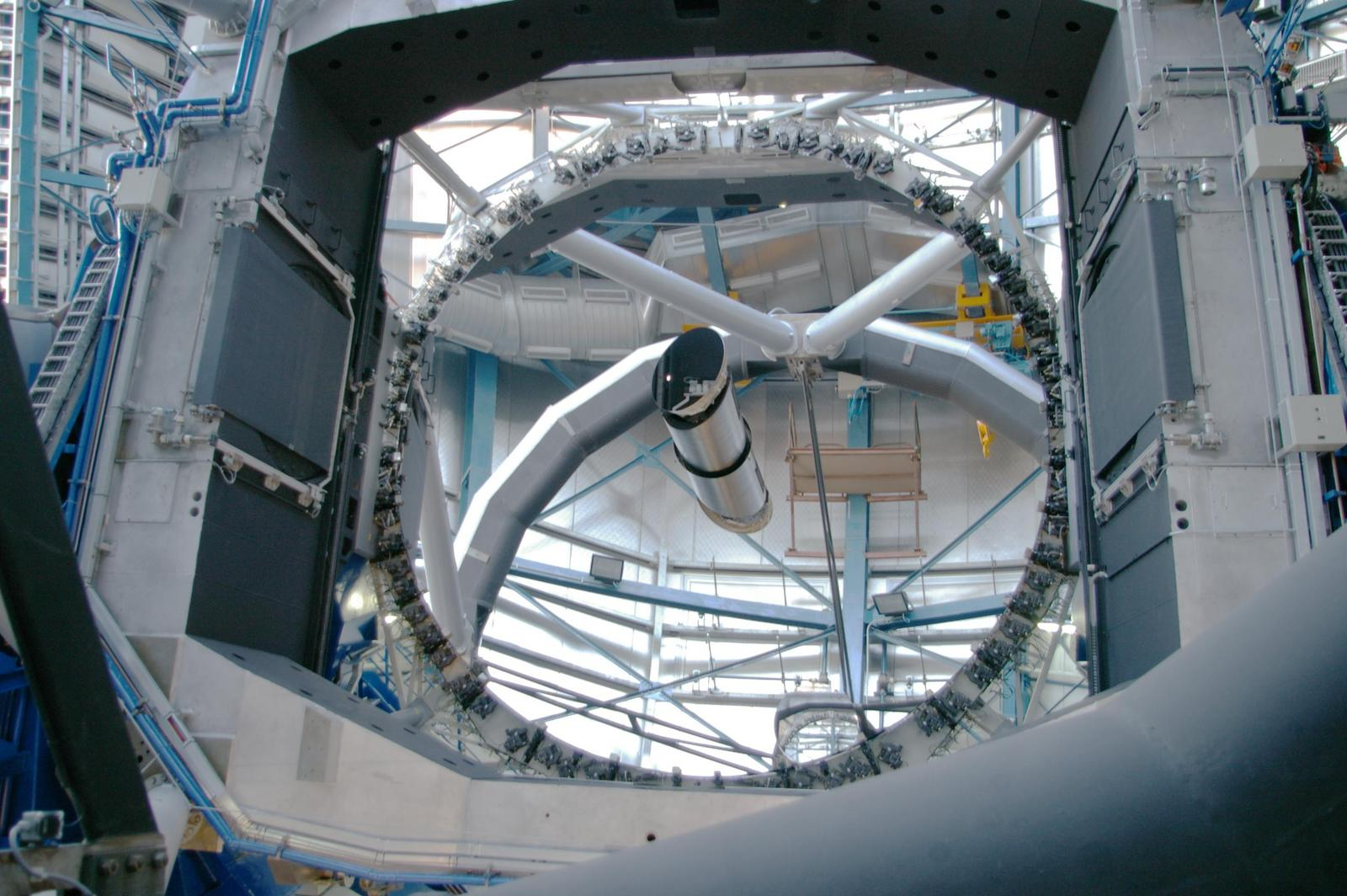 Paranal observatory, Hauptspiegel UT2